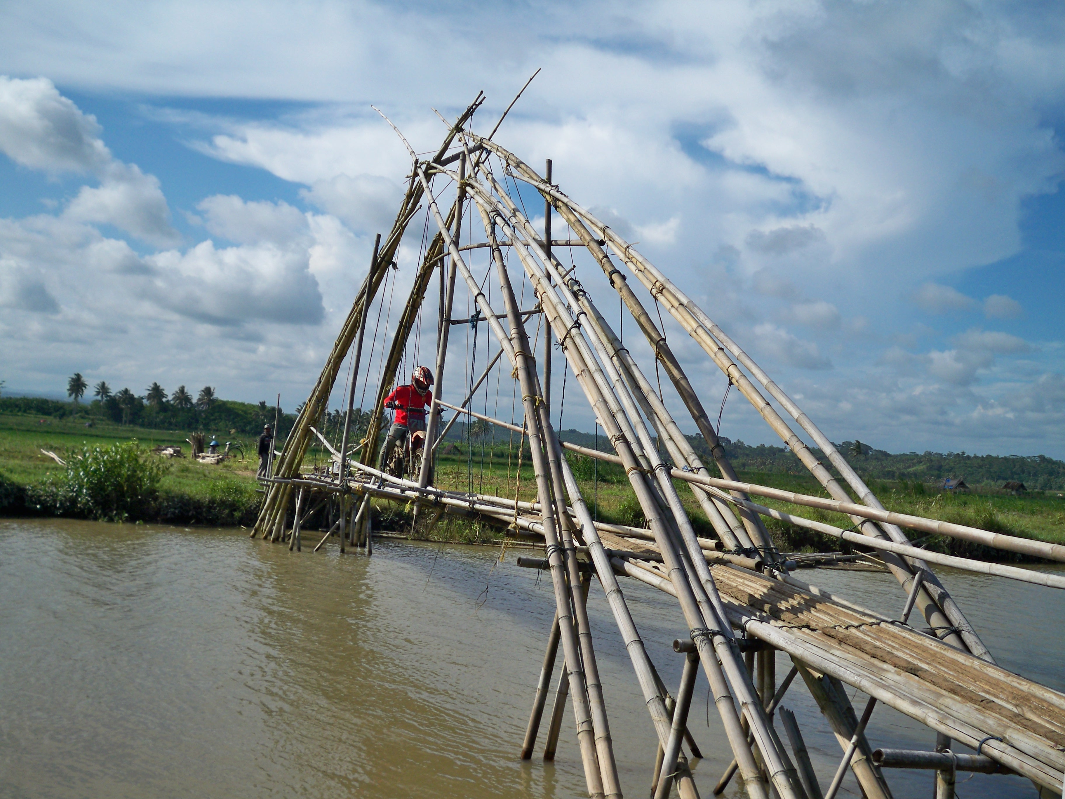 Crossing the river on a bamboo bridge